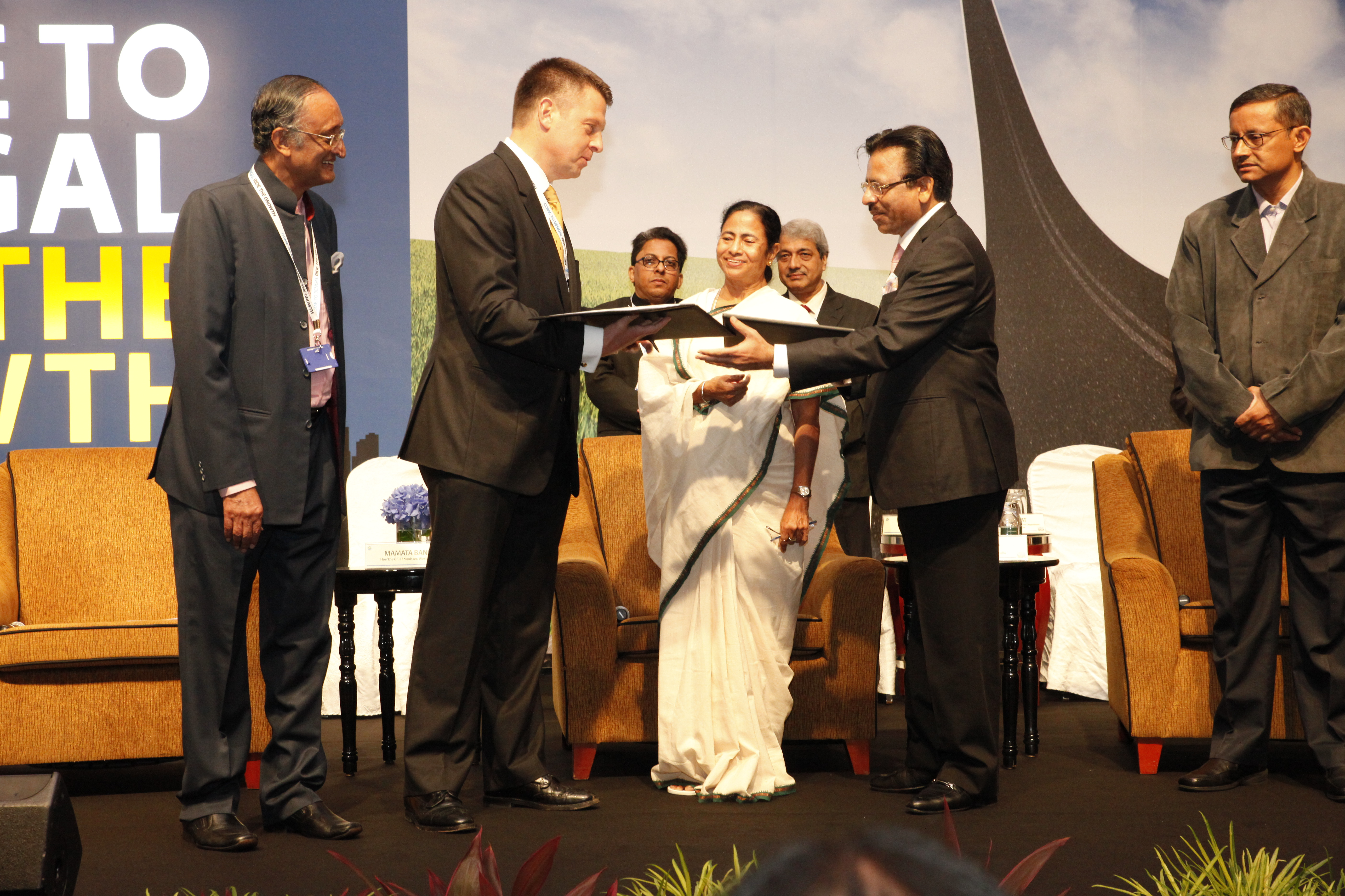 Ghanshyam Sarda with Mamata Banerjee, Hon'ble Chief Minister of West Bengal and other dignitaries.